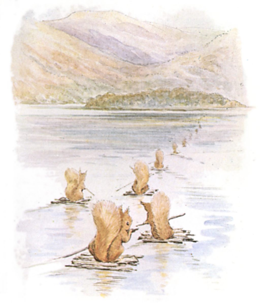 Illustration from The Tale of Squirrel Nutkin